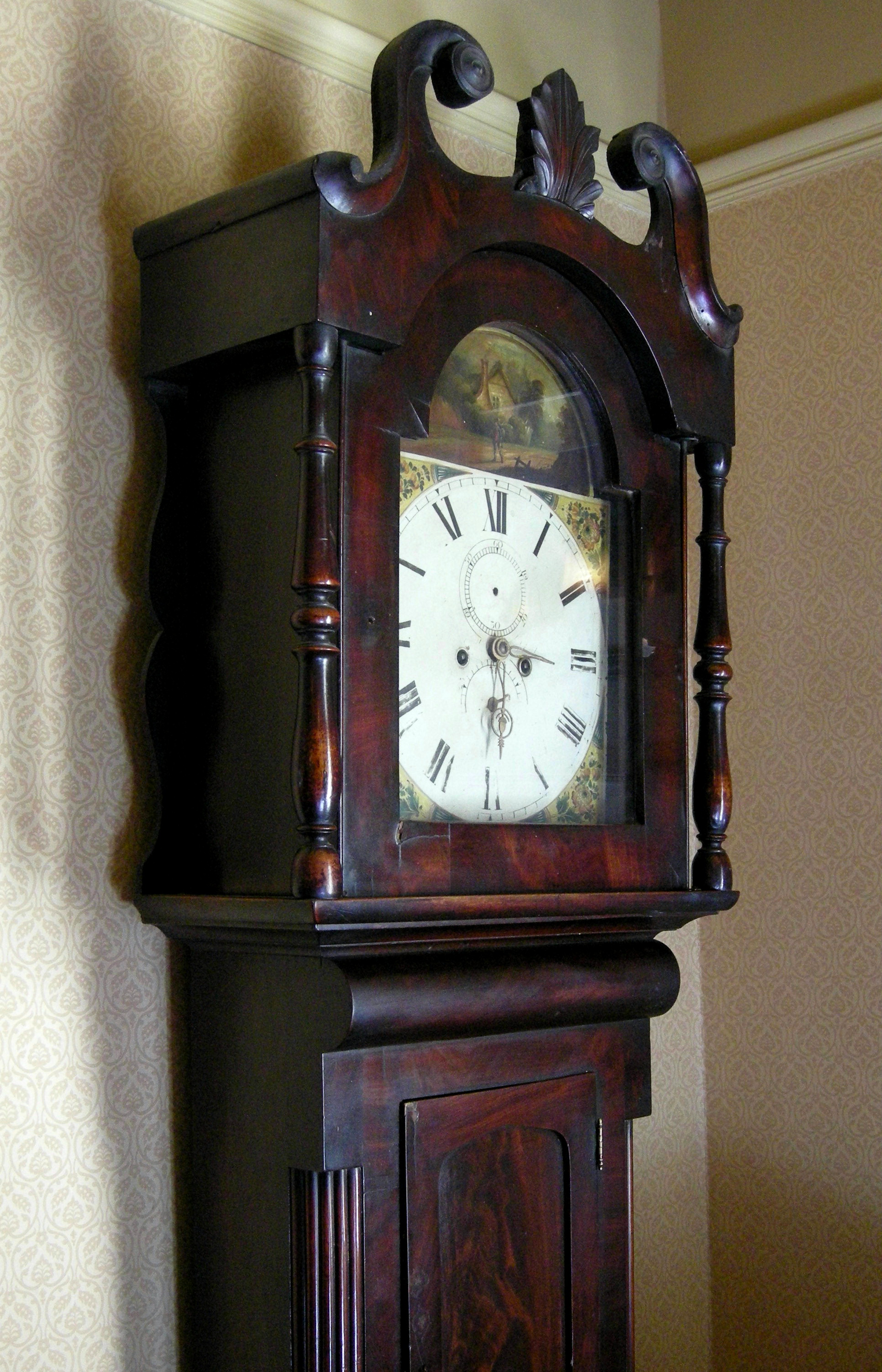 Grandfather clock at The George pub, Cliffe, Richmondshire, England. This is the clock reputed to have stopped "when the old man died" in the song, Grandfather's Clock, and is therefore supposed to be the first longcase clock to be called a grandfather clock.